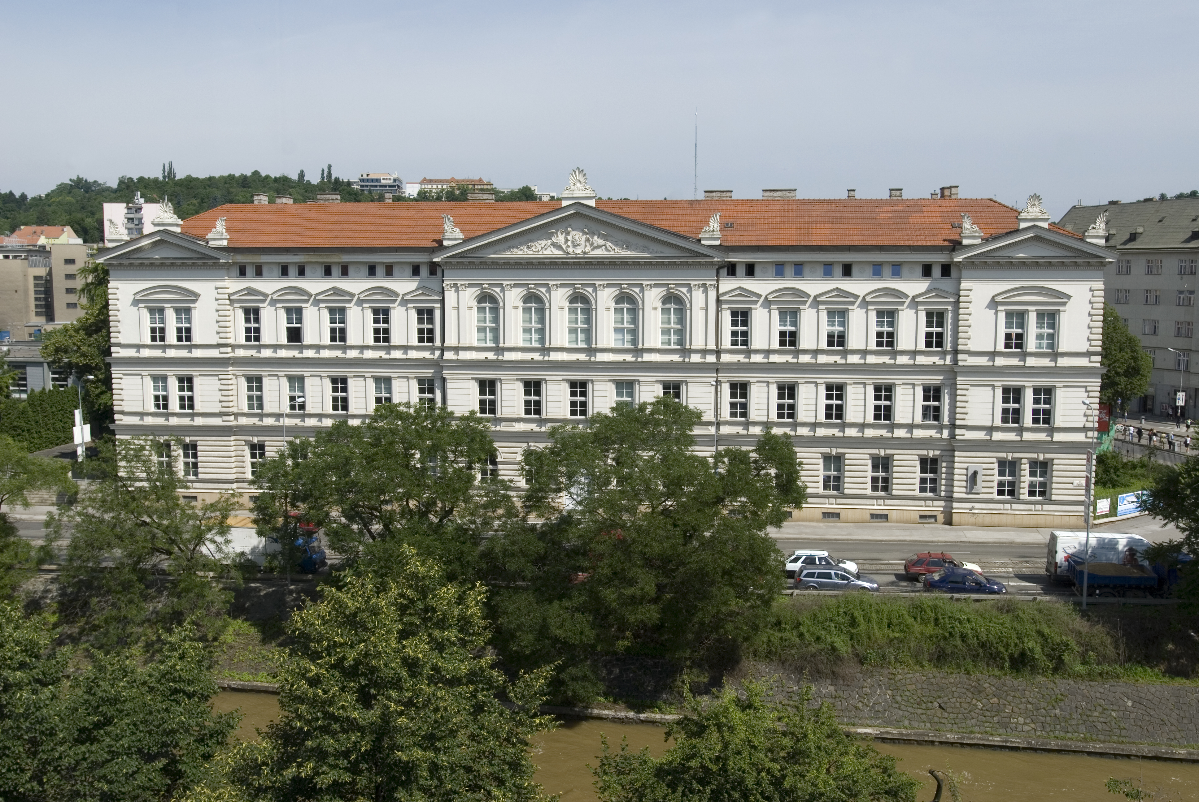 Building of Faculty of Architecture of Brno University of Technology